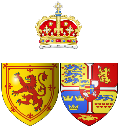 Coat of arms of Anne of Denmark as Queen consort of Scots